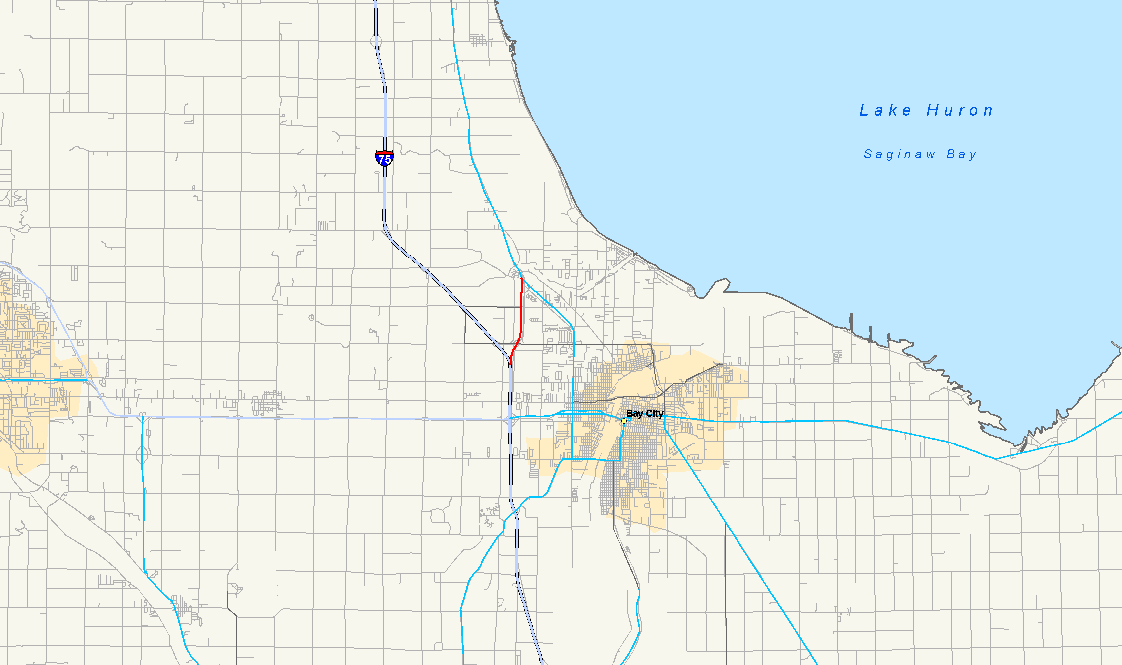 Map of CONN M-13